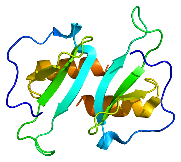 Structure of the CCL20 protein. Based on PyMOL rendering of PDB 1m8a.